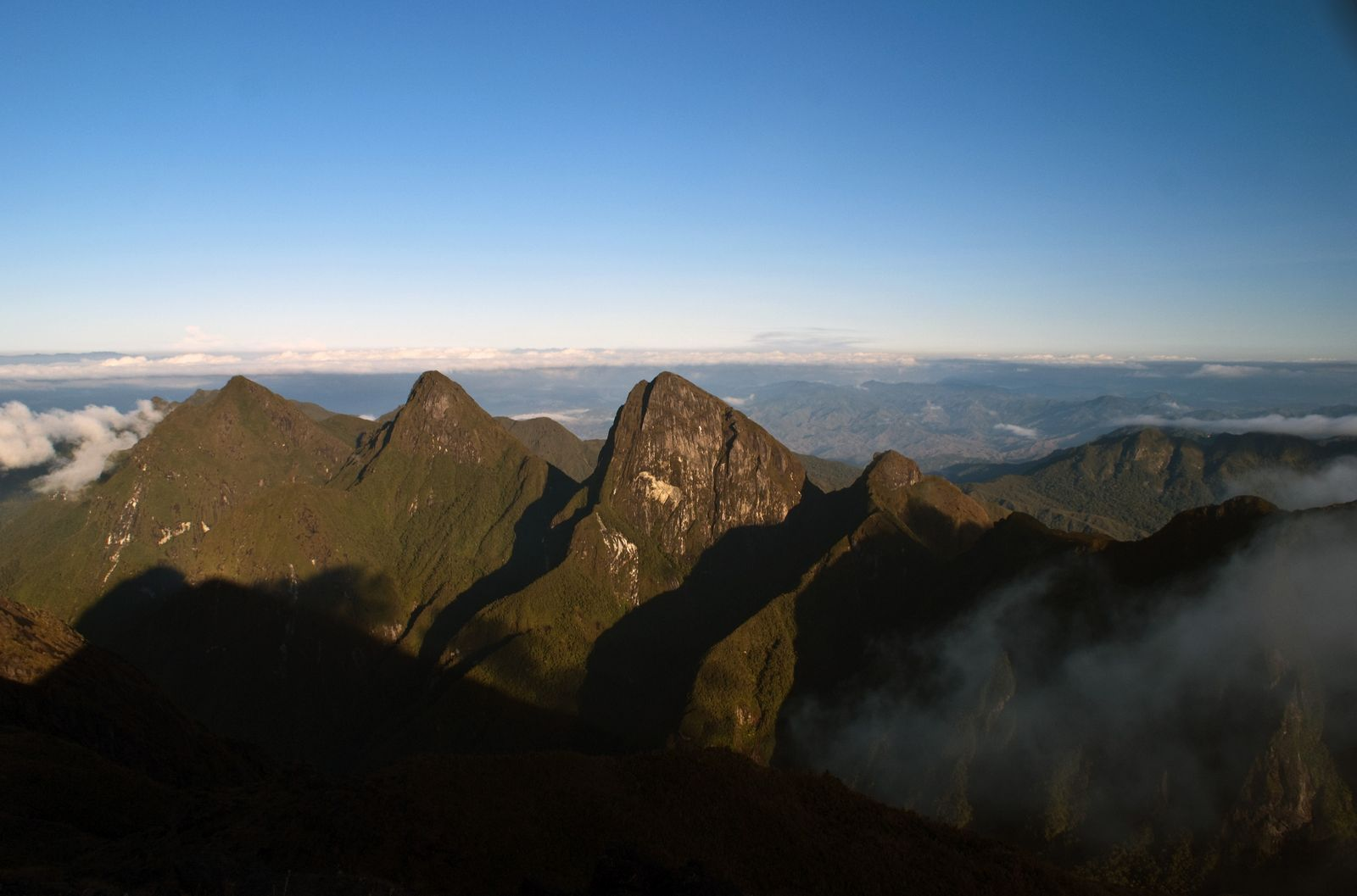 The three peaks - Marojejy National Park - Summit (2132m) - Madagascar